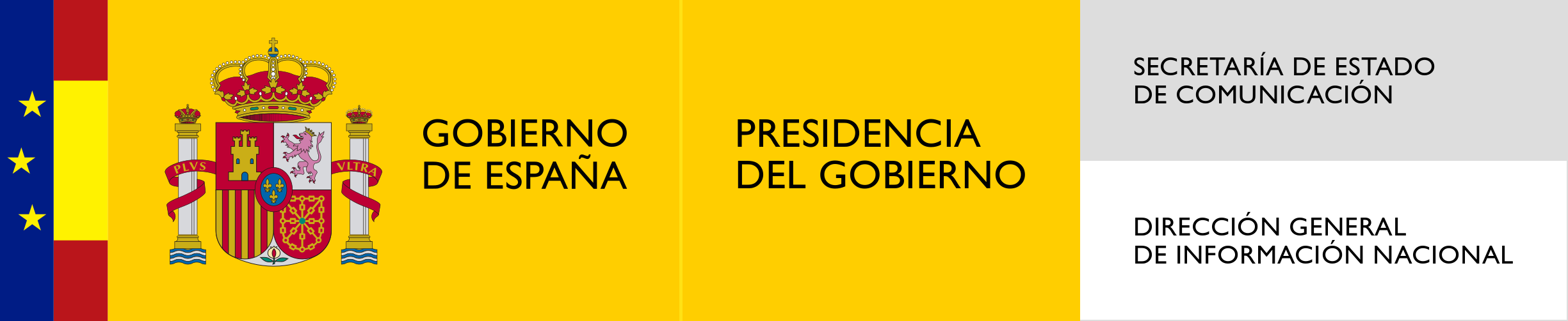 Logo of the Directorate-General for National Information of the Government of Spain.